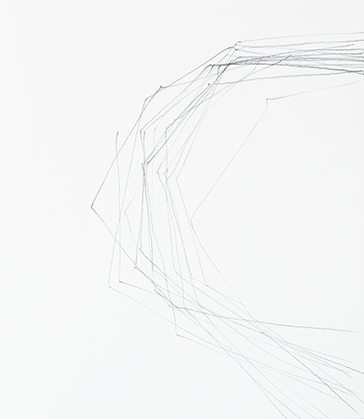 Marie Hanlon: 'DIC TAT Metronome drawing (63 beats per second)'; pencil on paper 45 x 37.7 cm; 2014